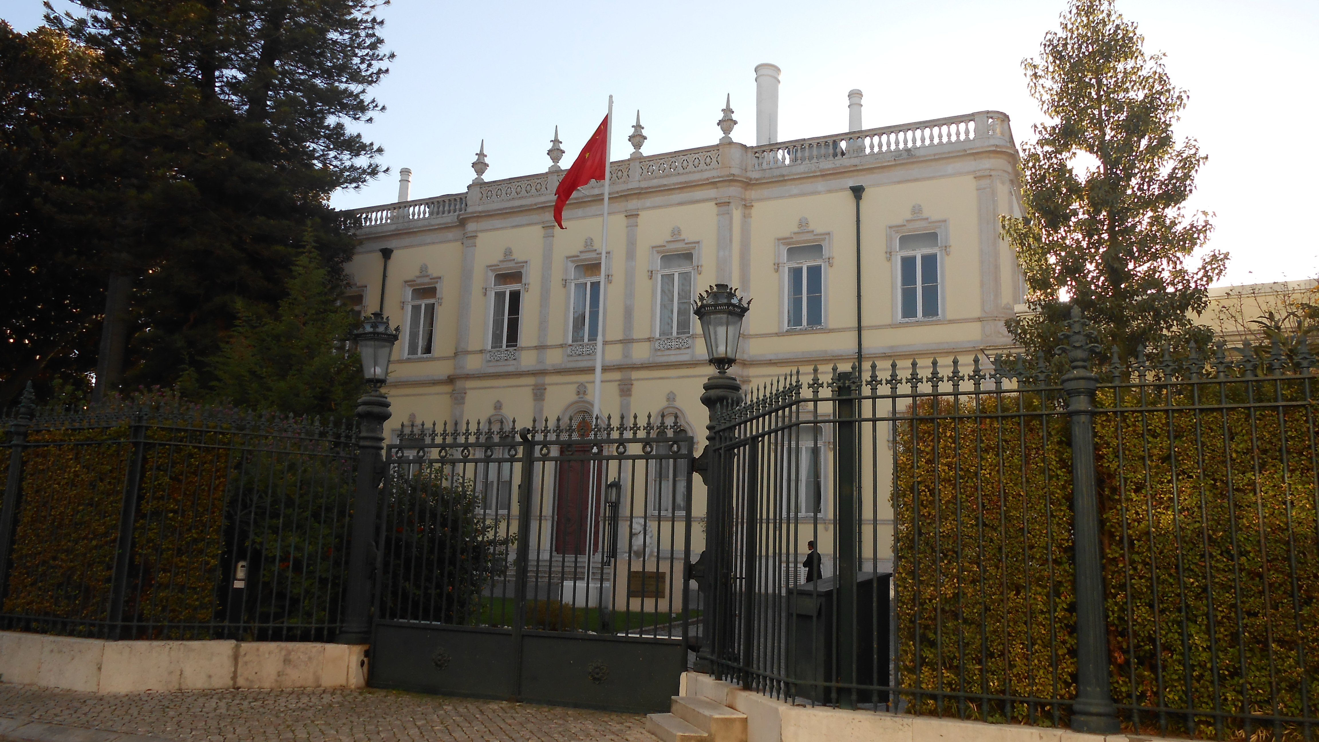 The embassy of the People's Republic of China in Lapa, a neighbourhood in Lisbon.